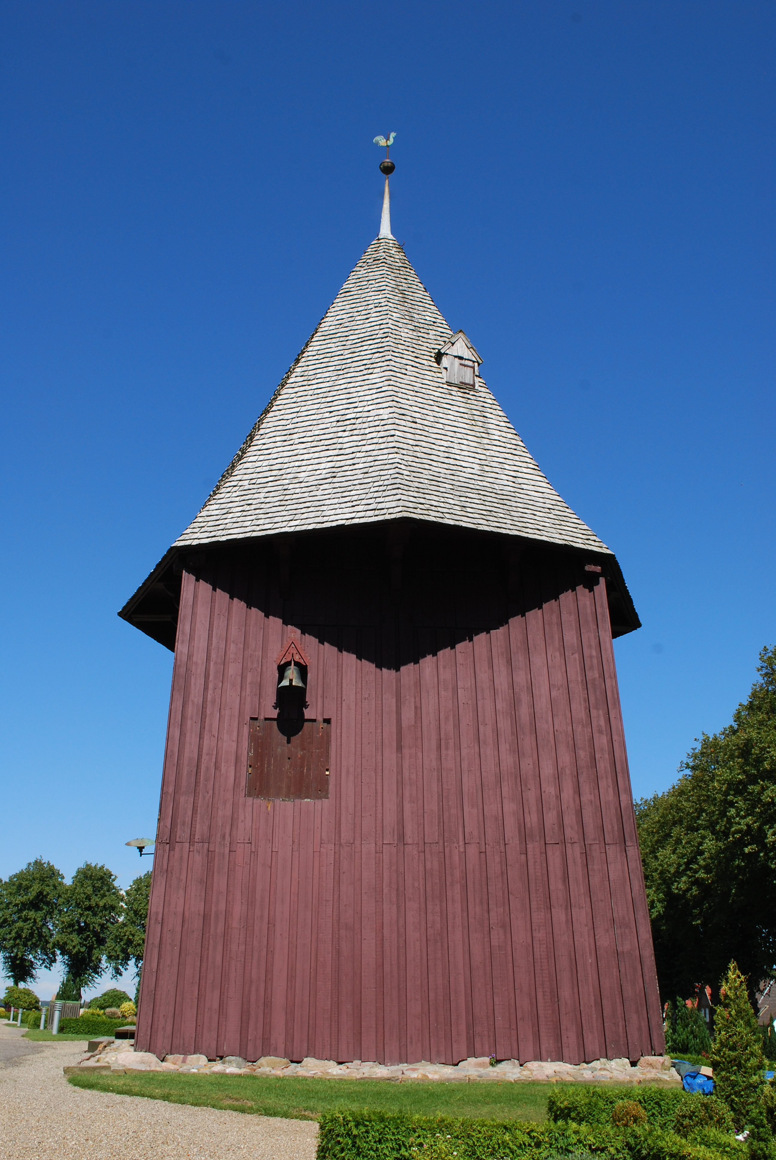 Wooden bell tower, Churchyard, Broager Church, Denmark. The shingles wooden bell tower (1650), is the largest of it´s kind in Denmark